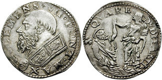 Italy, Papal States. Clement VII. 1523-1534. AR Double Carlino (5.36 gm). Rome mint, mintmaster: crossed hands. Bare-headed and mantled bust left; collar panels contain portraits of Sts. Peter and Paul Christ standing left, lifting St. Peter above the waves. CNI XV pg. 386, 60; Muntoni I pg. 149, 43; Berman 841. Dies engraved by Benvenuto Cellini.